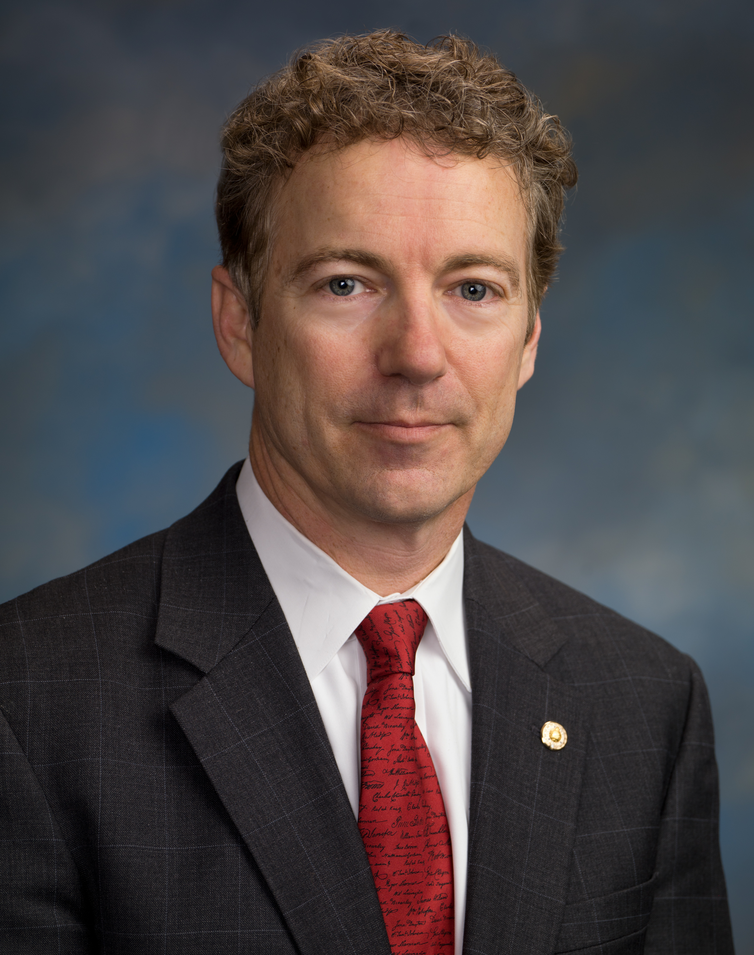 Rand Paul, Senator from Kentucky